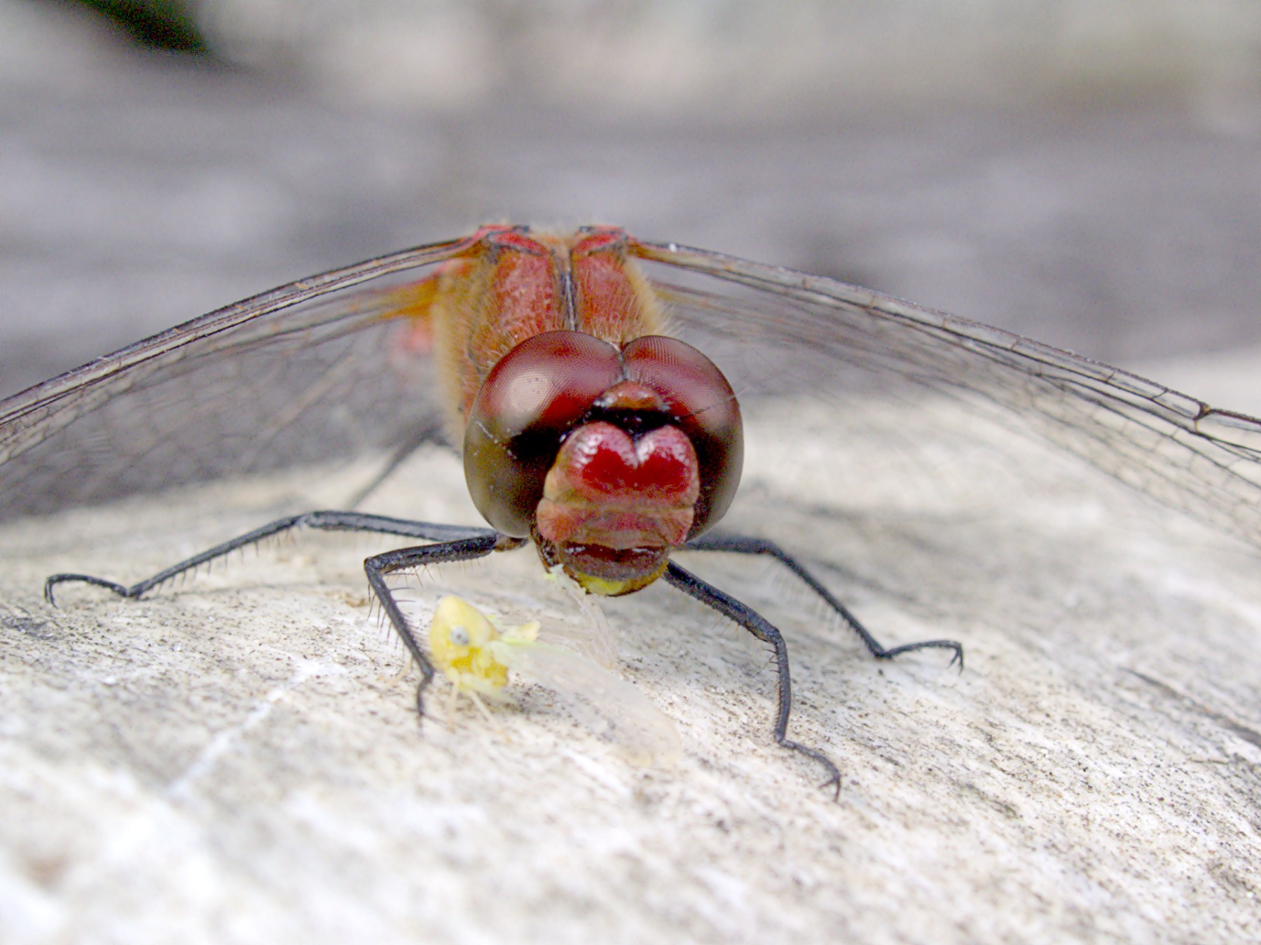 Name: Sympetrum sanguineum (male with prey which may be a Cicadellidae). Family: Libellulidae. Location: Münster, NRW, Germany